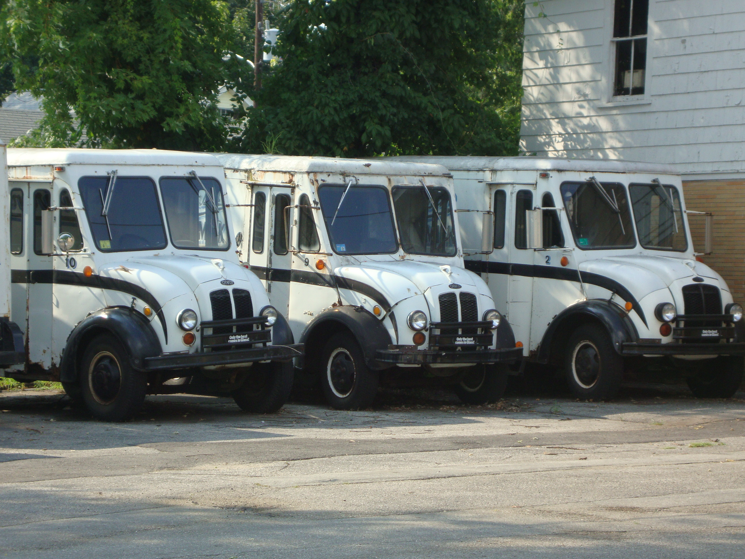 DIVCO step van.